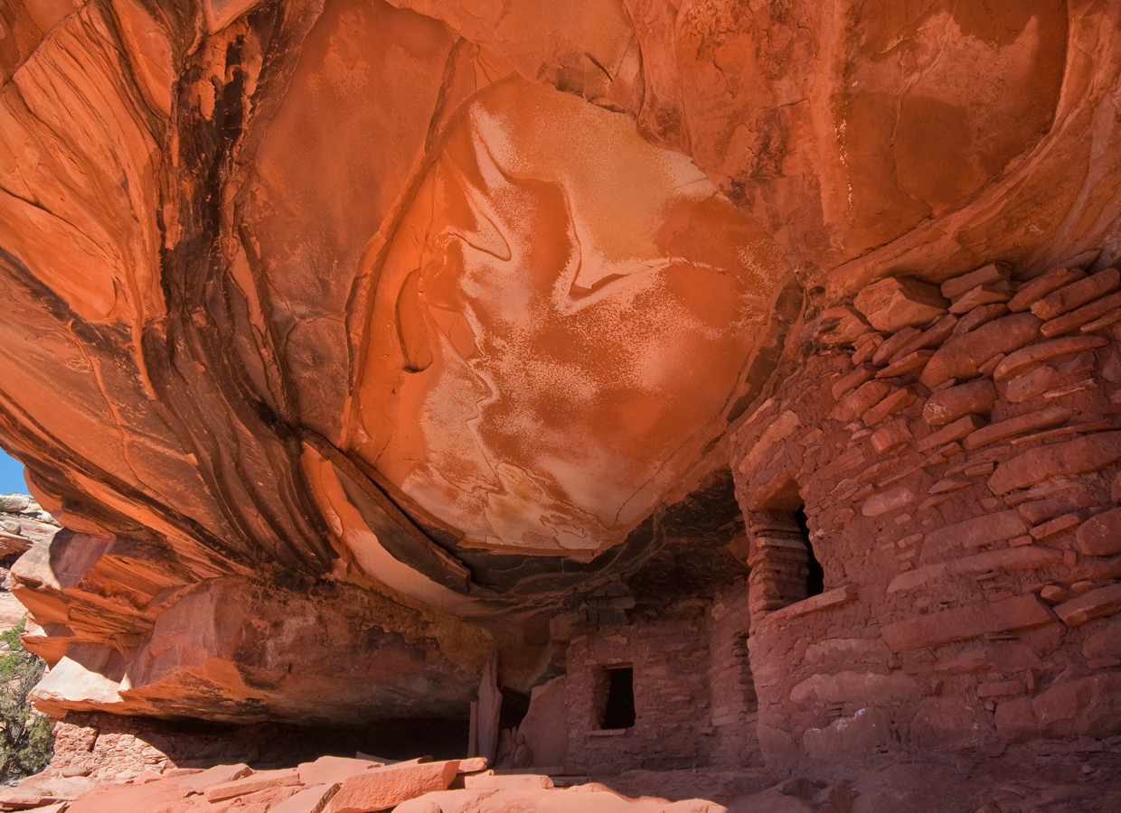 Fallen Roof Ruin, Road Canyon, UT